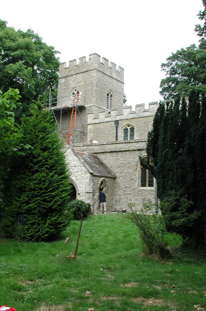 St Mary, Hardmead, Bucks, near to Hardmead, Milton Keynes, Great Britain.